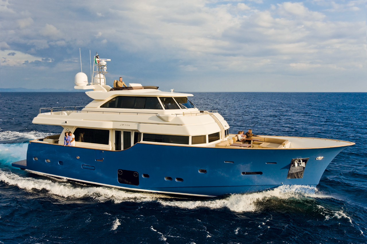 a picture of a Mochi Craft Yacht, the Long Range 23'